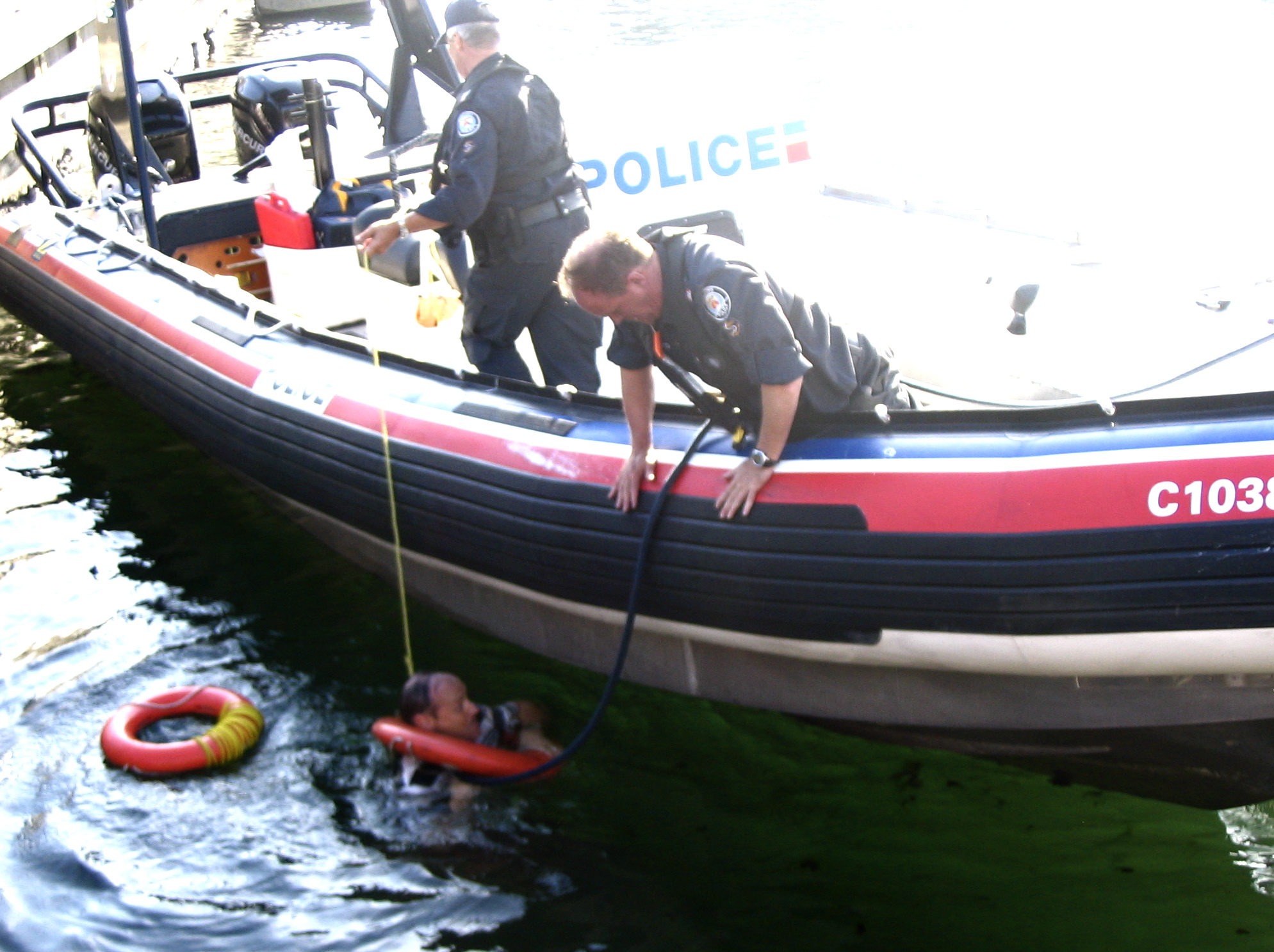 For the stub on rescue buoy, it shows a rescue buoy being used.